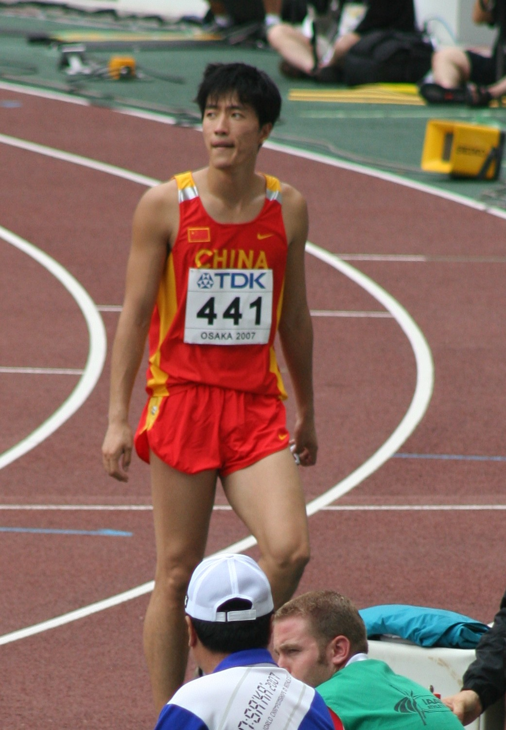 World Athletics Championships 2007 in Osaka - 110 metres hurdles world record holder Xiang Liu